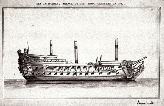 Flying the Invincible, captured at the Battle of Cape Ortegal (may 1747). This 74-gun is then inserted into the Royal Navy. It is also copied by the shipyards English because it is more modern than the English ships of the same type.